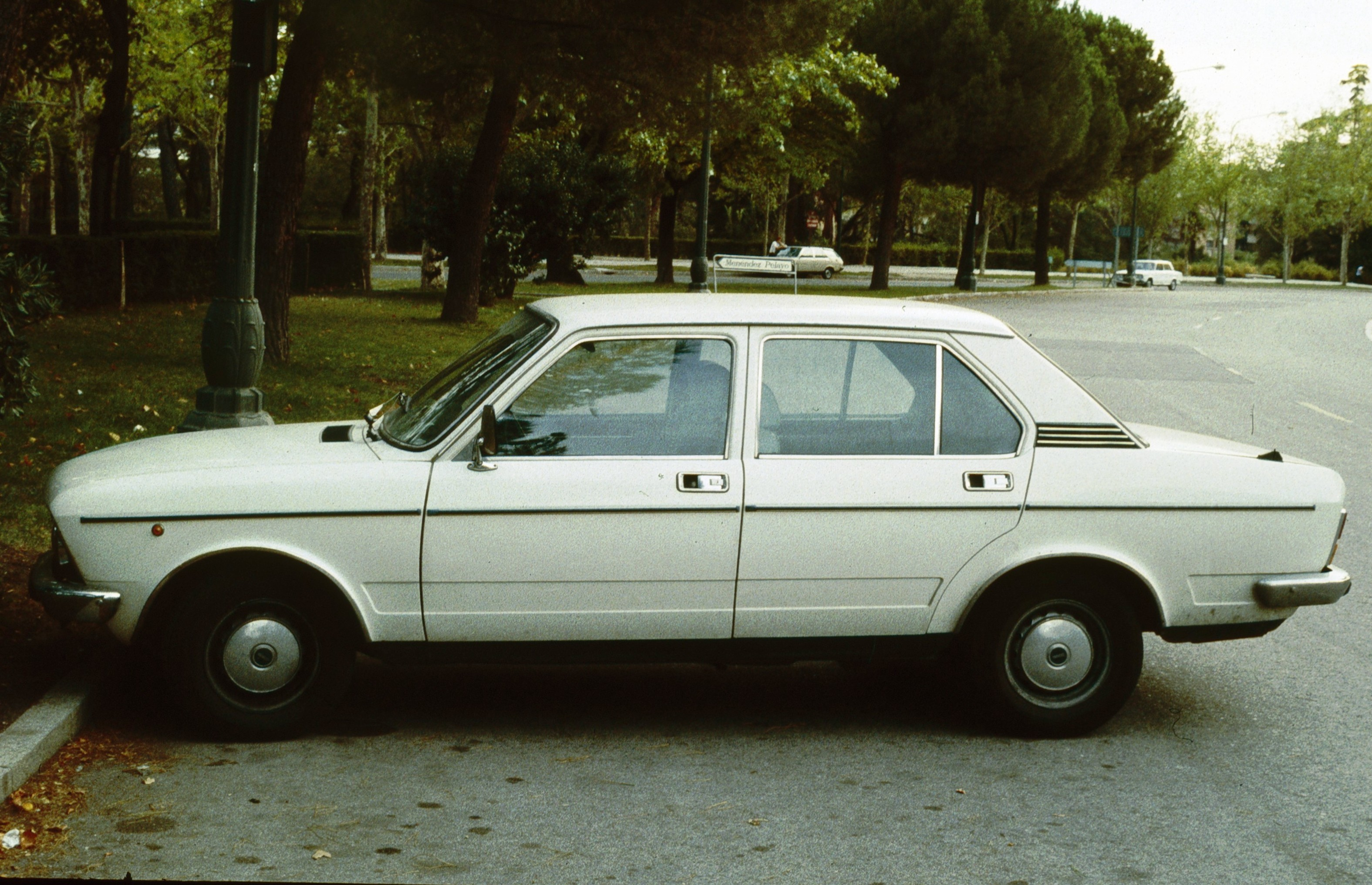 Seat 132. Picture taken in Spain (note "Menéndez Pelayo" sign in the background